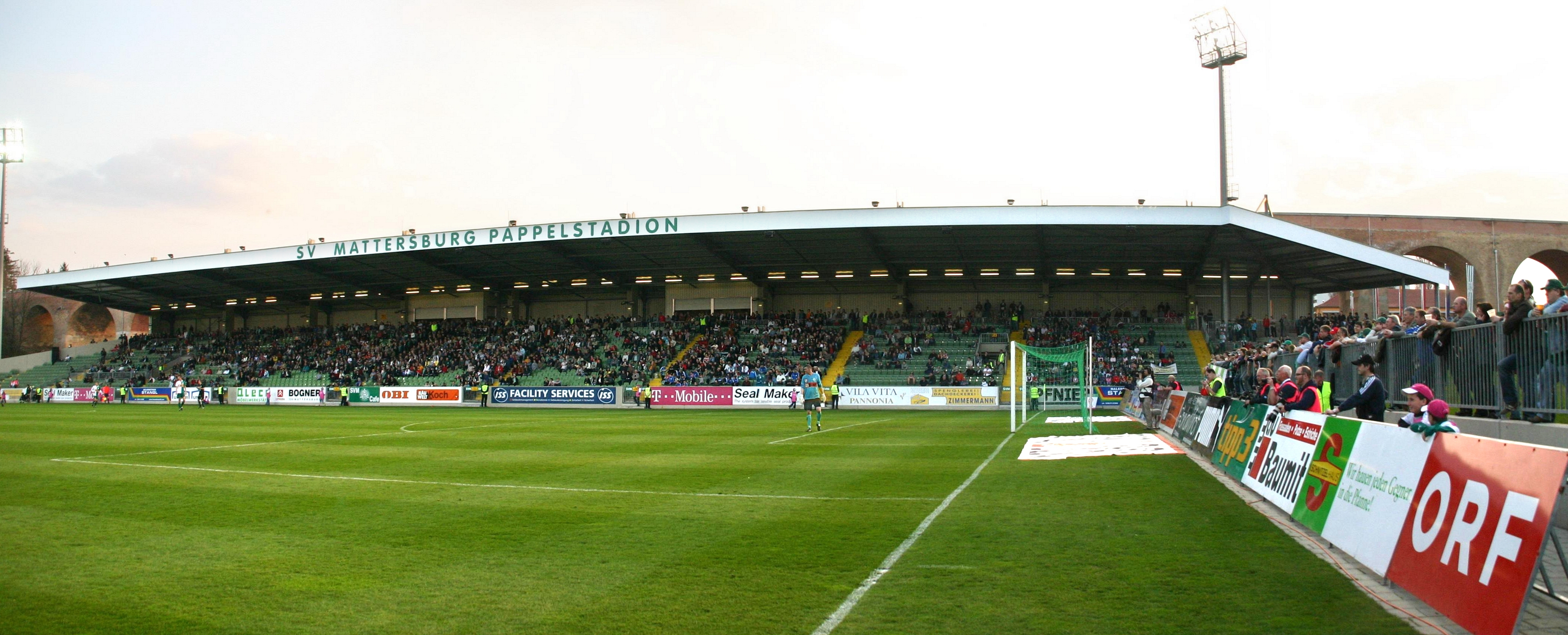 Pappelstadion (stitched together from 3 pics using Autostitch); the photographer asks you to notify him by e-mail if you re-use the picture: aon.912180459[at]aon.at